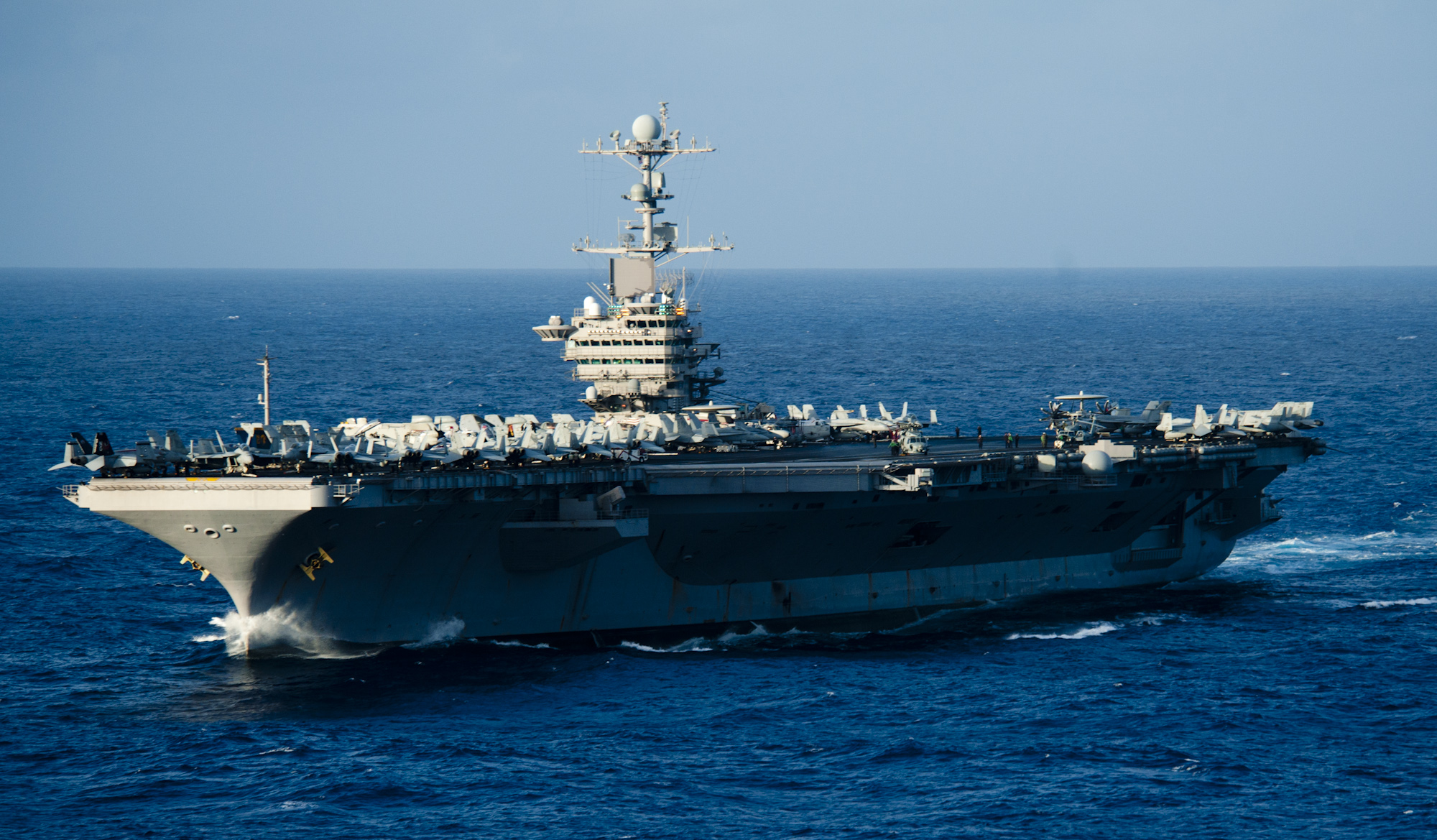 PACIFIC OCEAN (Feb. 9, 2012) The Nimitz-class aircraft carrier USS John C. Stennis (CVN 74) transits the Pacific Ocean. John C. Stennis is operating in the U.S. 7th Fleet area of responsibility while on a seven-month deployment. (U.S. Navy photo by Mass Communication Specialist 3rd Class Kenneth Abbate/Released) 120209-N-OY799-056